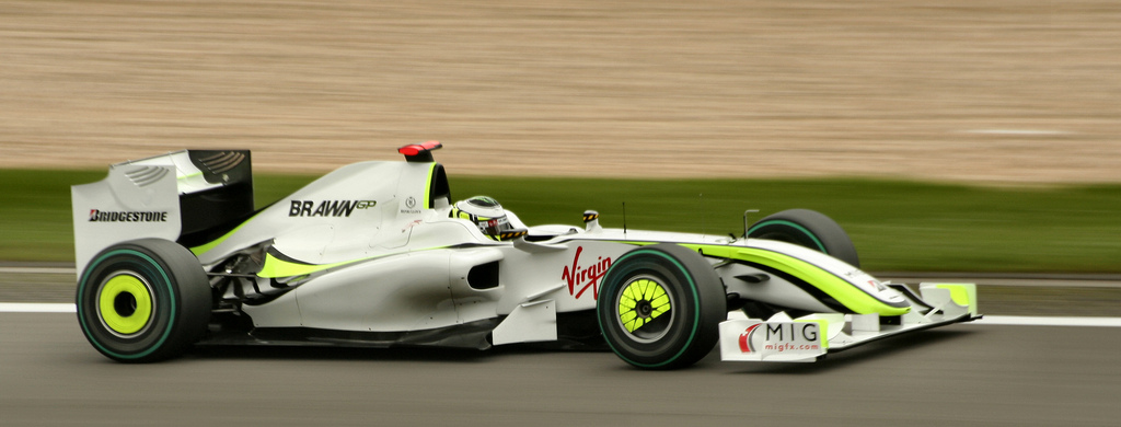 Jenson Button driving for Brawn GP at the 2009 German Grand Prix.